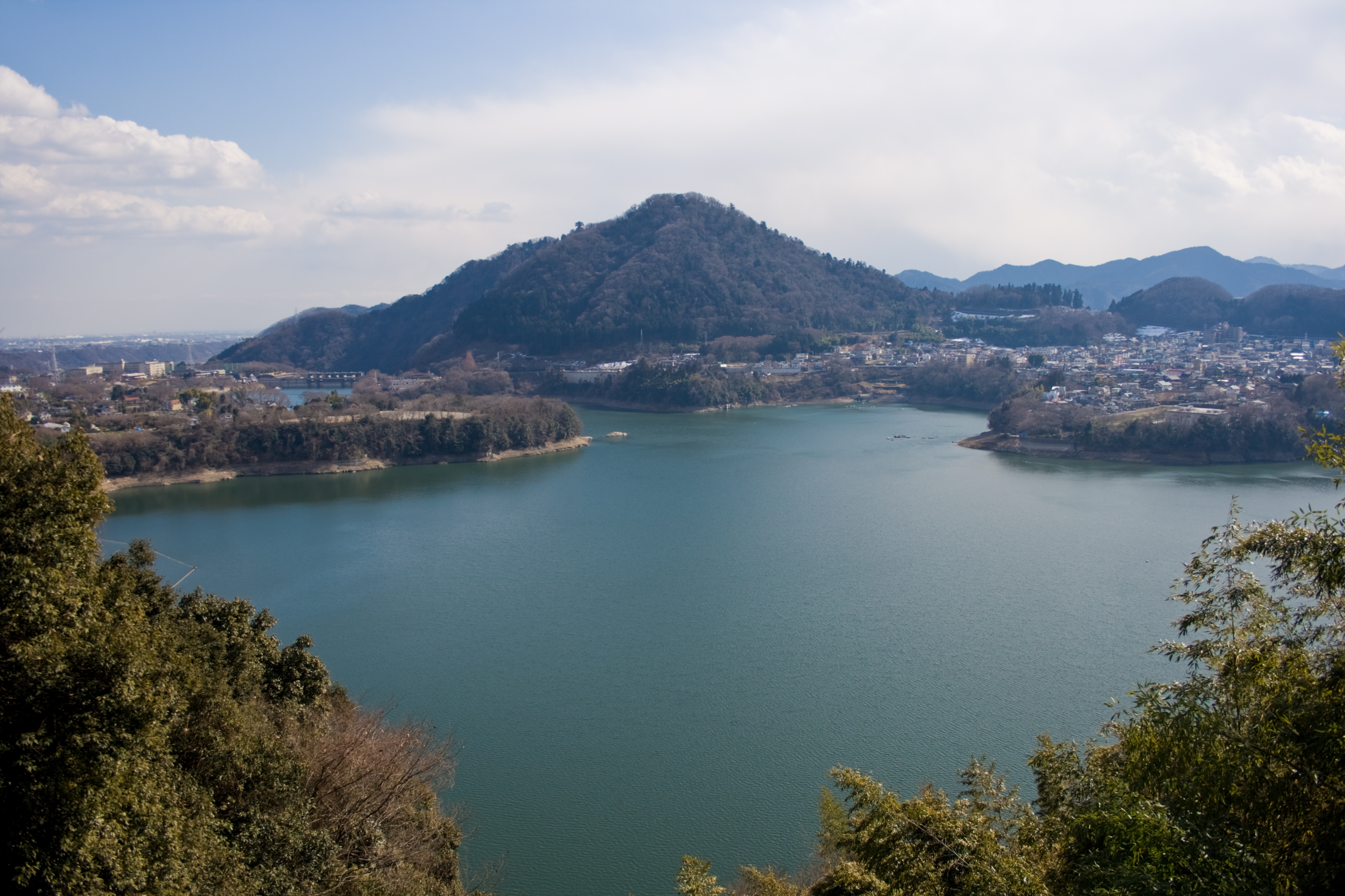 Lake Tsukui and Mt. Shiroyama, Kanagawa, Japan.